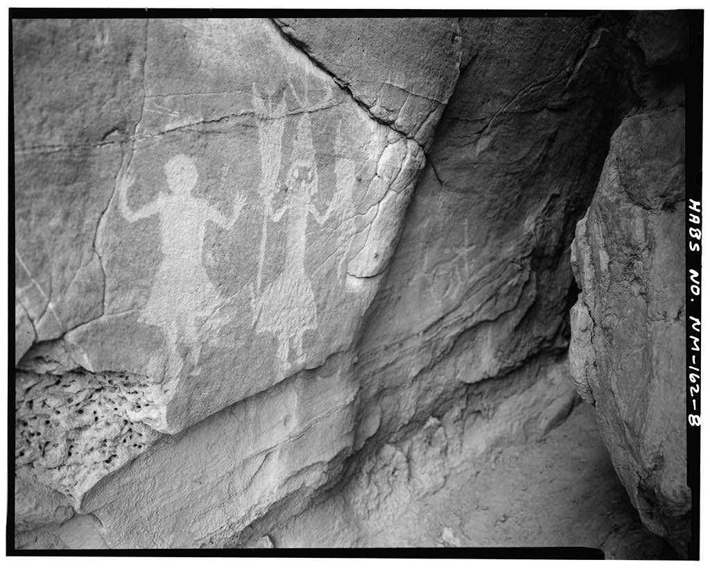 Crow Canyon Petroglyphs, Cuervo Canyon at junction of Canon Largo, Blanco vicinity, San Juan County, NM